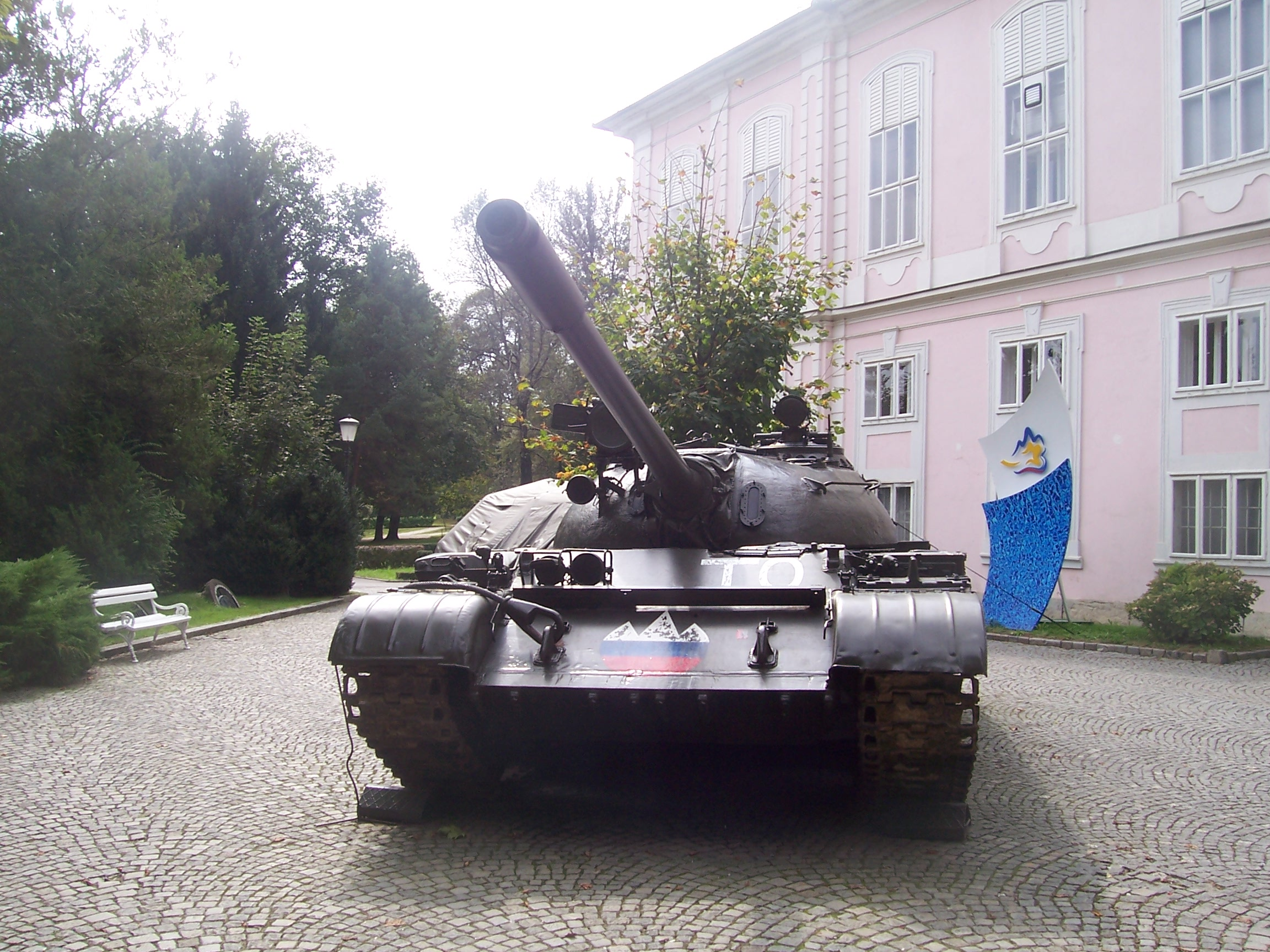 Outside the National Museum of Contemporary History in Tivoli Park, Ljubljana.